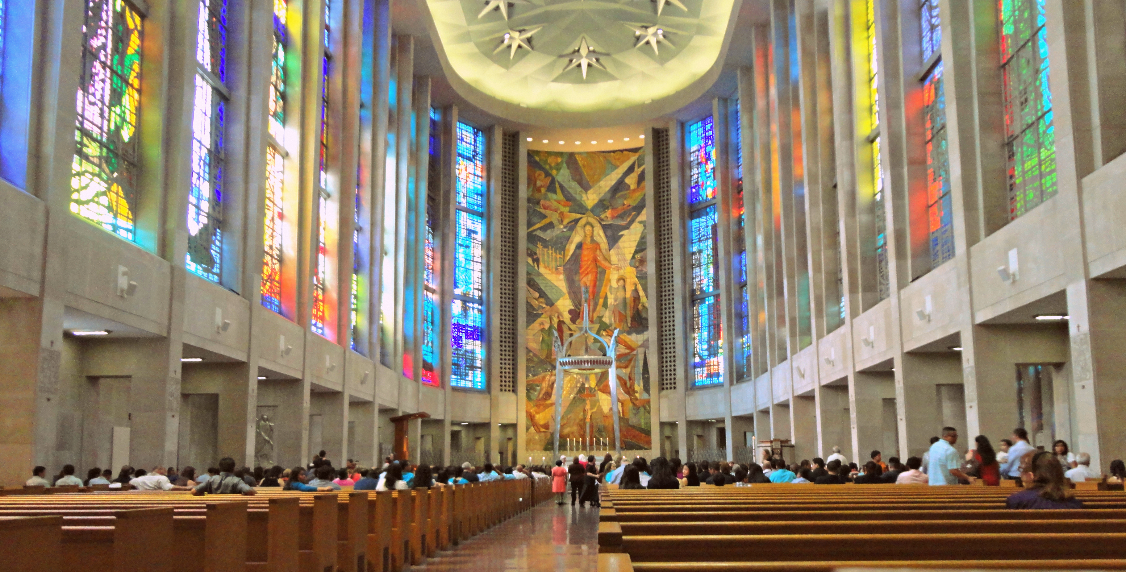 Taken on May 25th before a Confirmation ceremony at the cathedral.